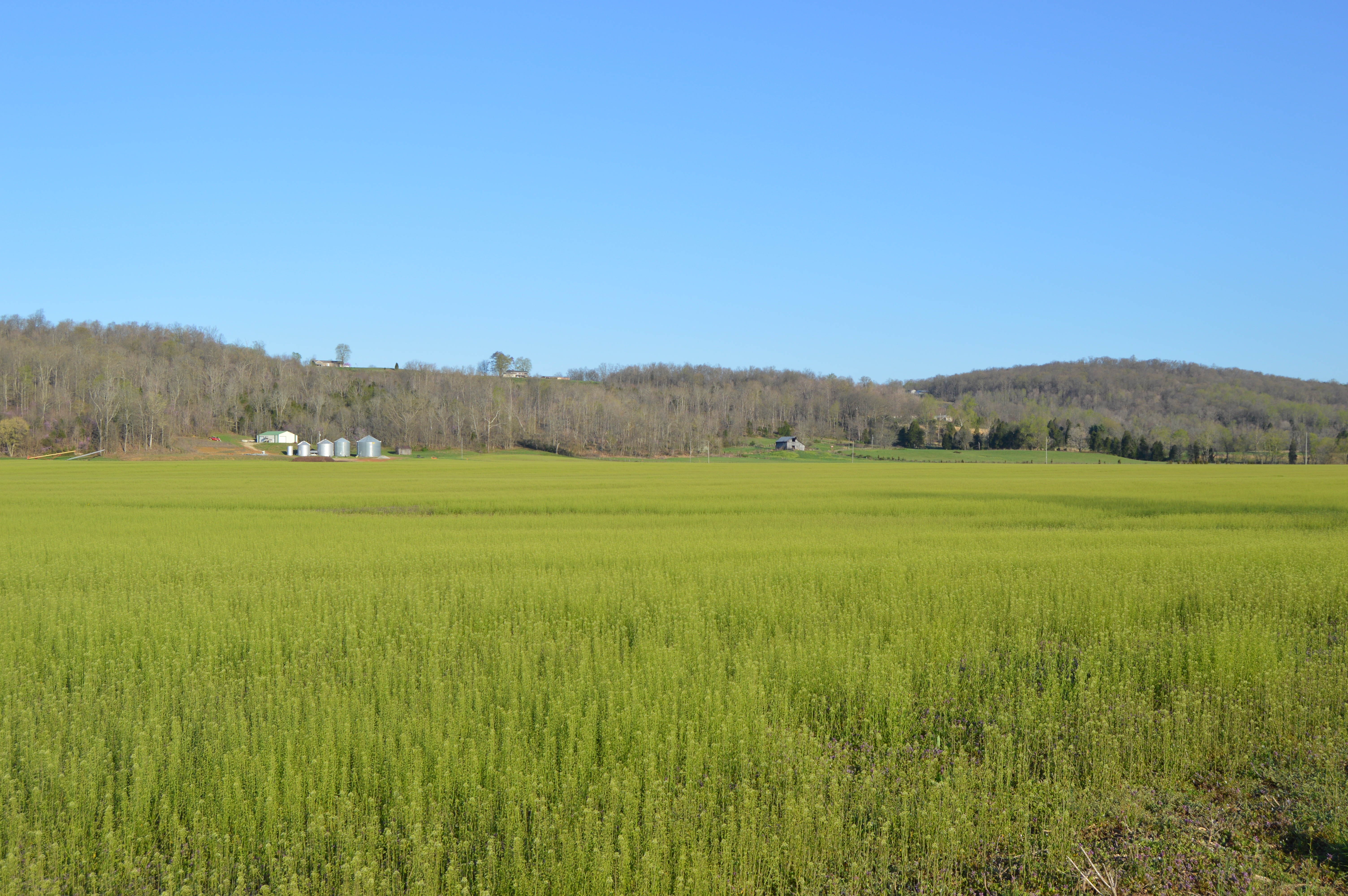 Fields on the western side of State Road 66 in the Ohio River floodplain (at river mile 694) just south of Derby in Tobin Township, Perry County, Indiana, United States.